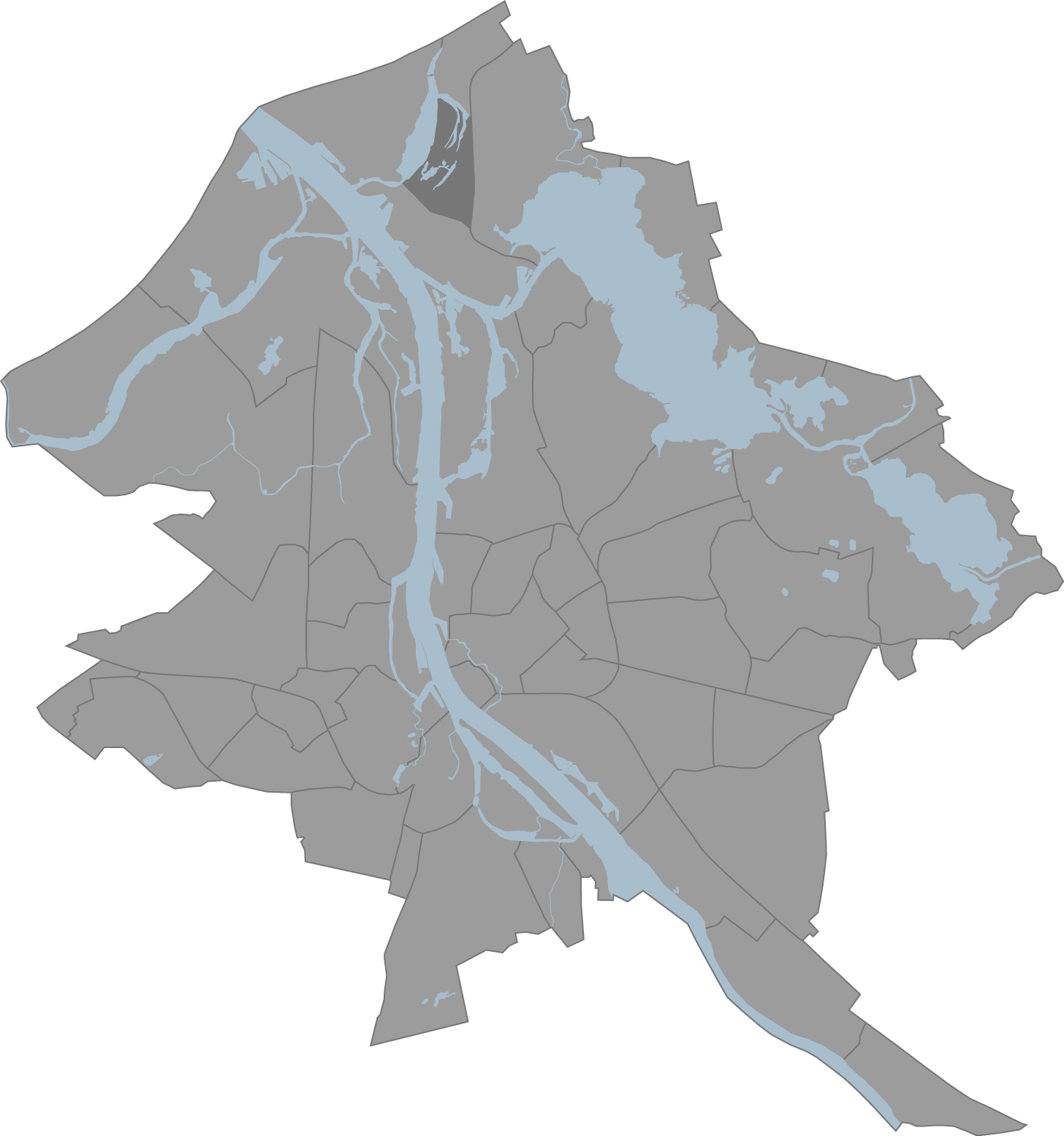 A map of Riga, Latvia with the eponymous commune highlighted